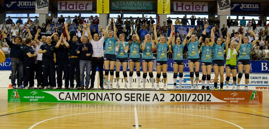 Italian volleyball team Cuatto Giaveno Volley.